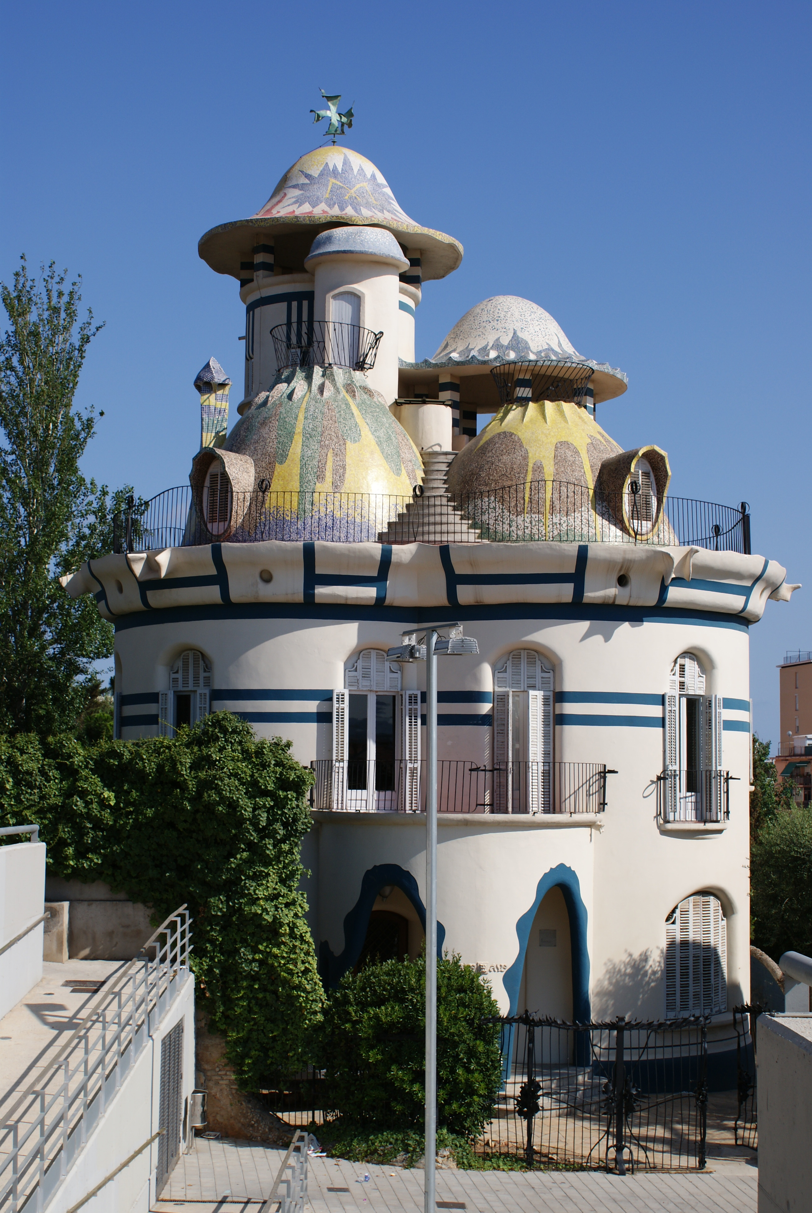 The Torre de la Creu, also called Casa del Ous (eggs house) by Josep Maria Jujol, Sant Joan Despí, Baix Llobregat, Catalonia, Spain.